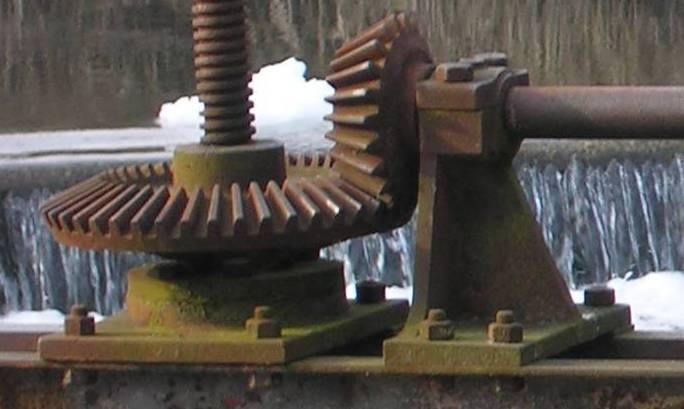 Bevel gear in the water height regulator. Photographed in Dubendorf, Switzerland by Audrius Meskauskas.